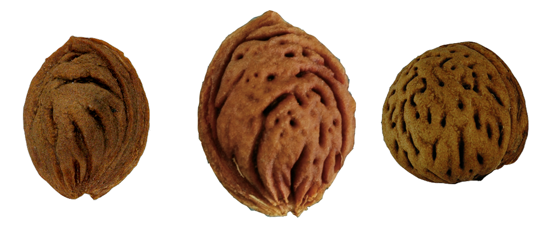 Prunus kansuensis (left), Prunus persica, feral type (center), and Prunus davidiana var. davidiana (right) Modified from Figure 3 in Zheng et. al 2014 "Archaeological Evidence for Peach (Prunus persica) Cultivation and Domestication in China"